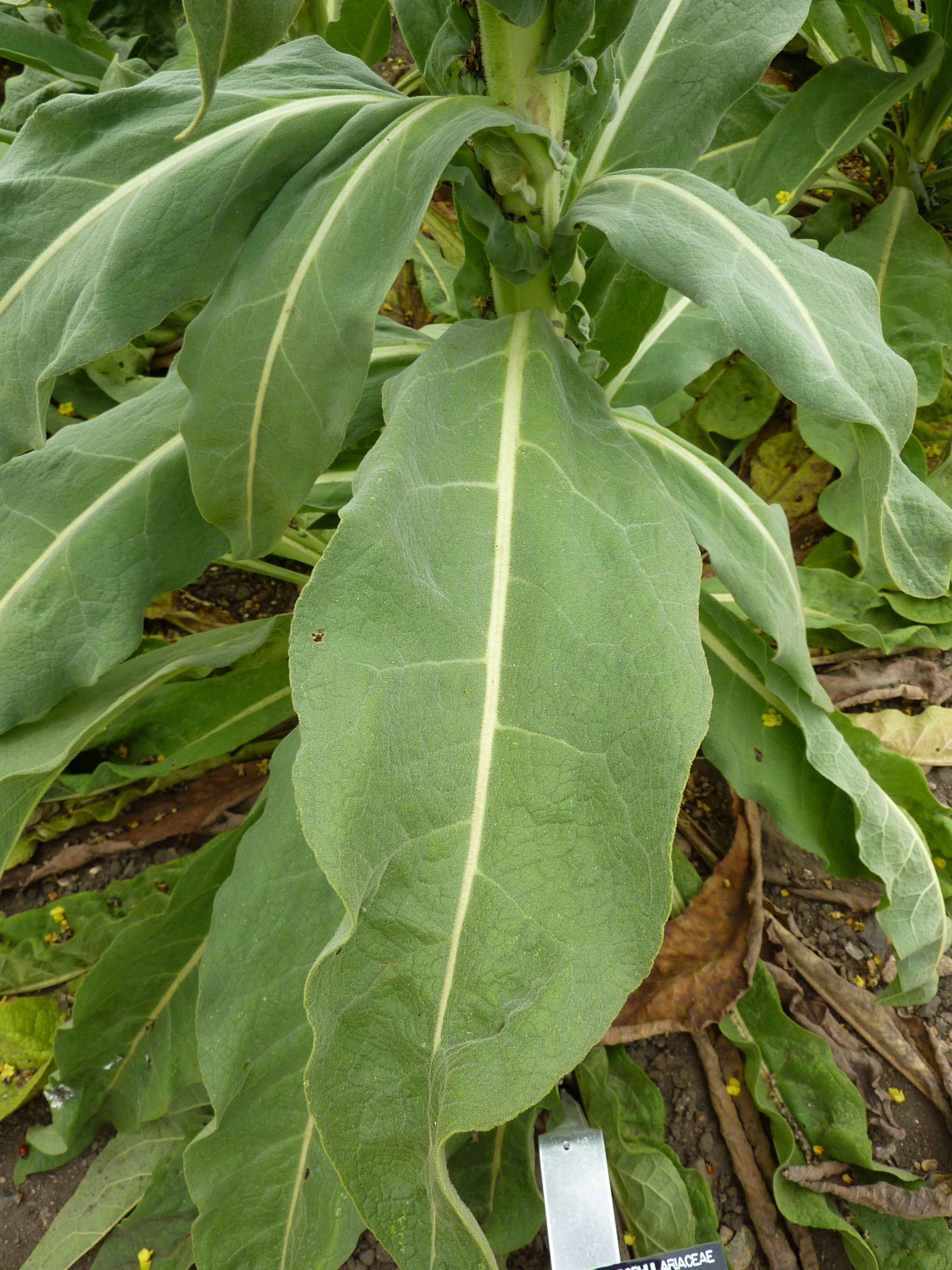 Taken in the Cambridge University Botanic Garden